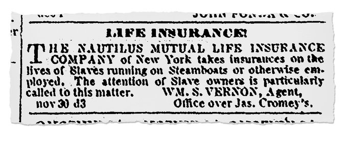 Nautilus Mutual Life Insurance (New York Life Insurance) ad for slave policies in The Daily Democrat newspaper. Louisville, K.Y. 1847.